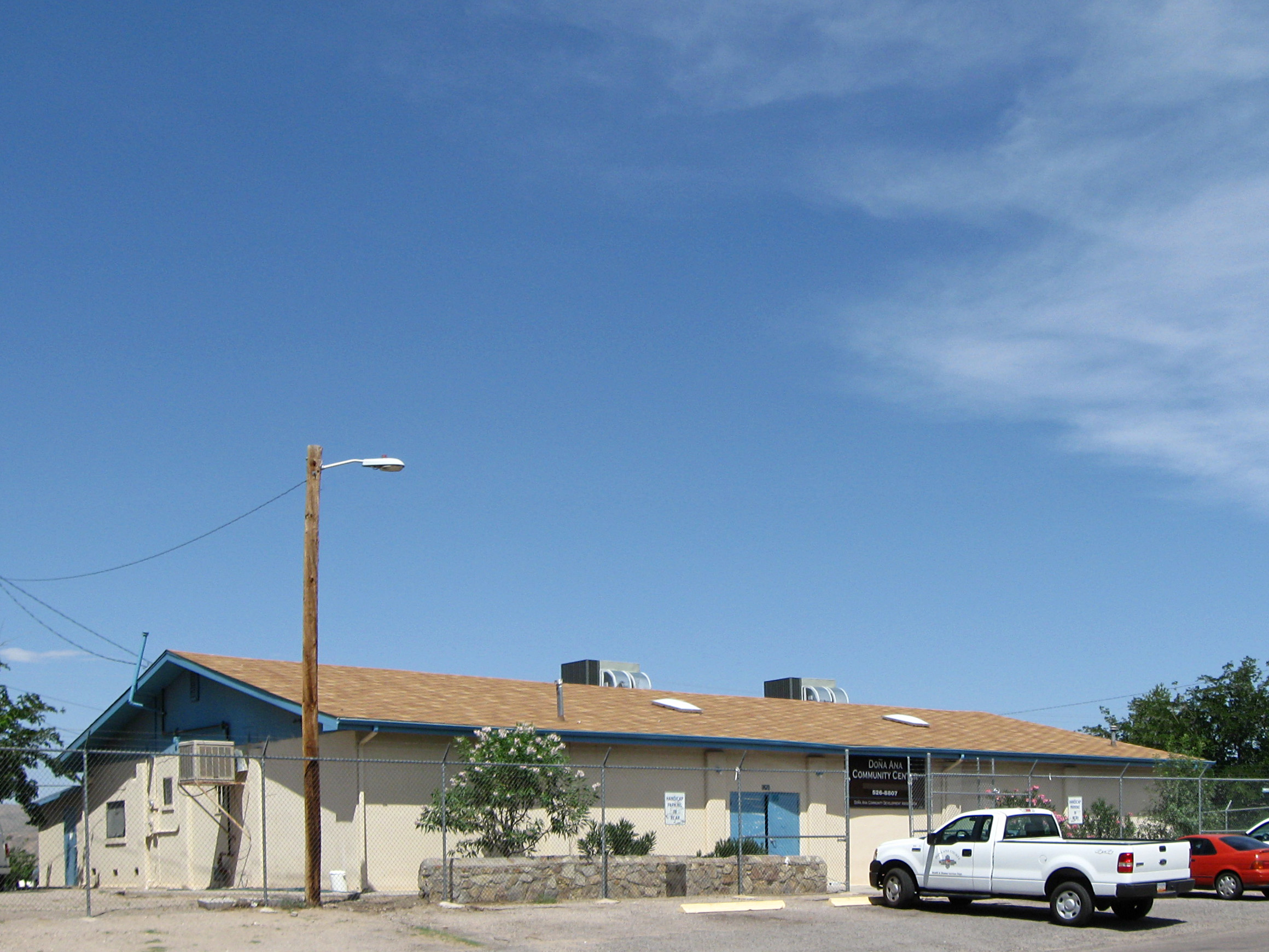 Doña Ana (New Mexico) Community Center, located at 5745 Ledesma Drive (corner of El Torito Lane) in Doña Ana, New Mexico